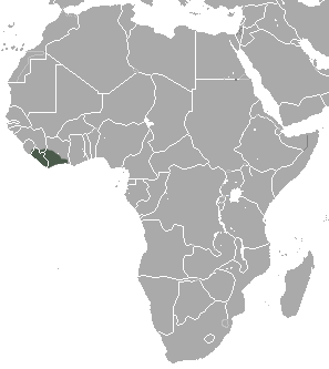 Jouvenet's Shrew (Crocidura jouvenetae) range